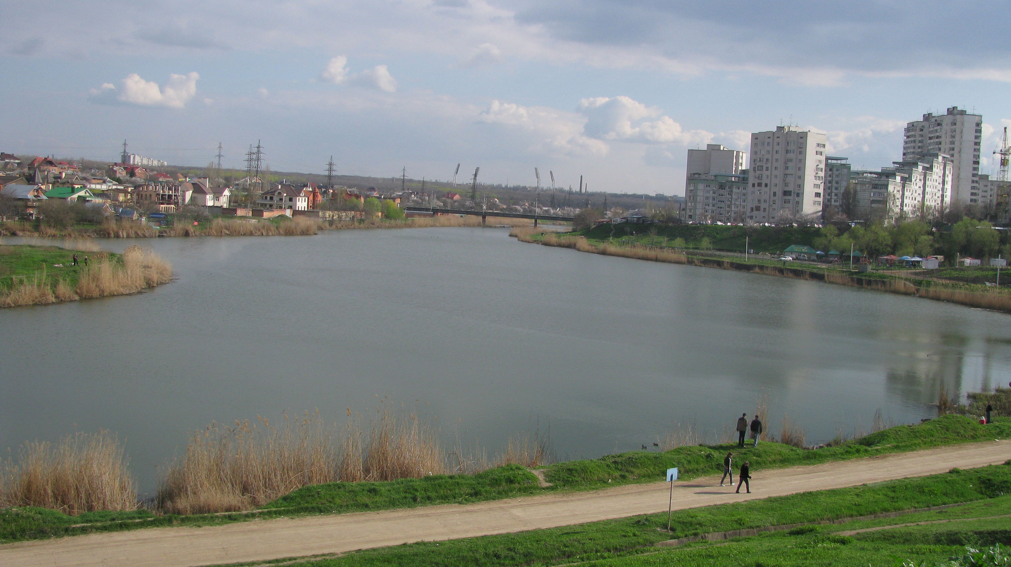 Temernik River near Druzhba park in the northern part of the city.